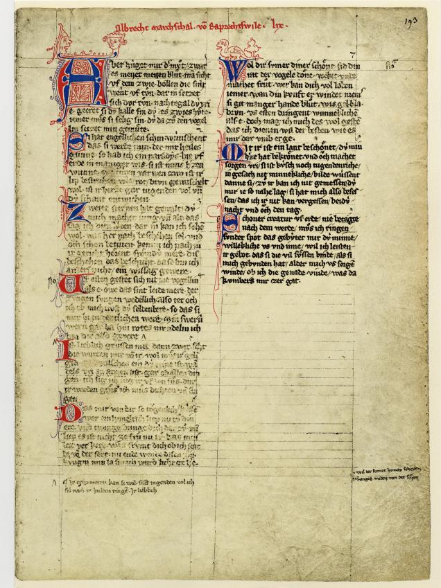 Rapperswil-Jona : Codex Manesse, fol. 193r, Albrecht von Rapperswil / Albrecht von Raprechtswil